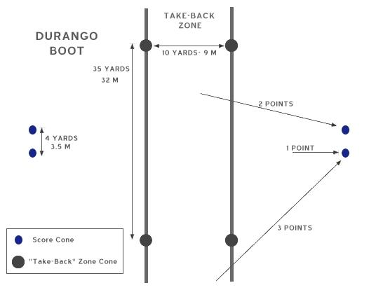 Field of Durango Boot game